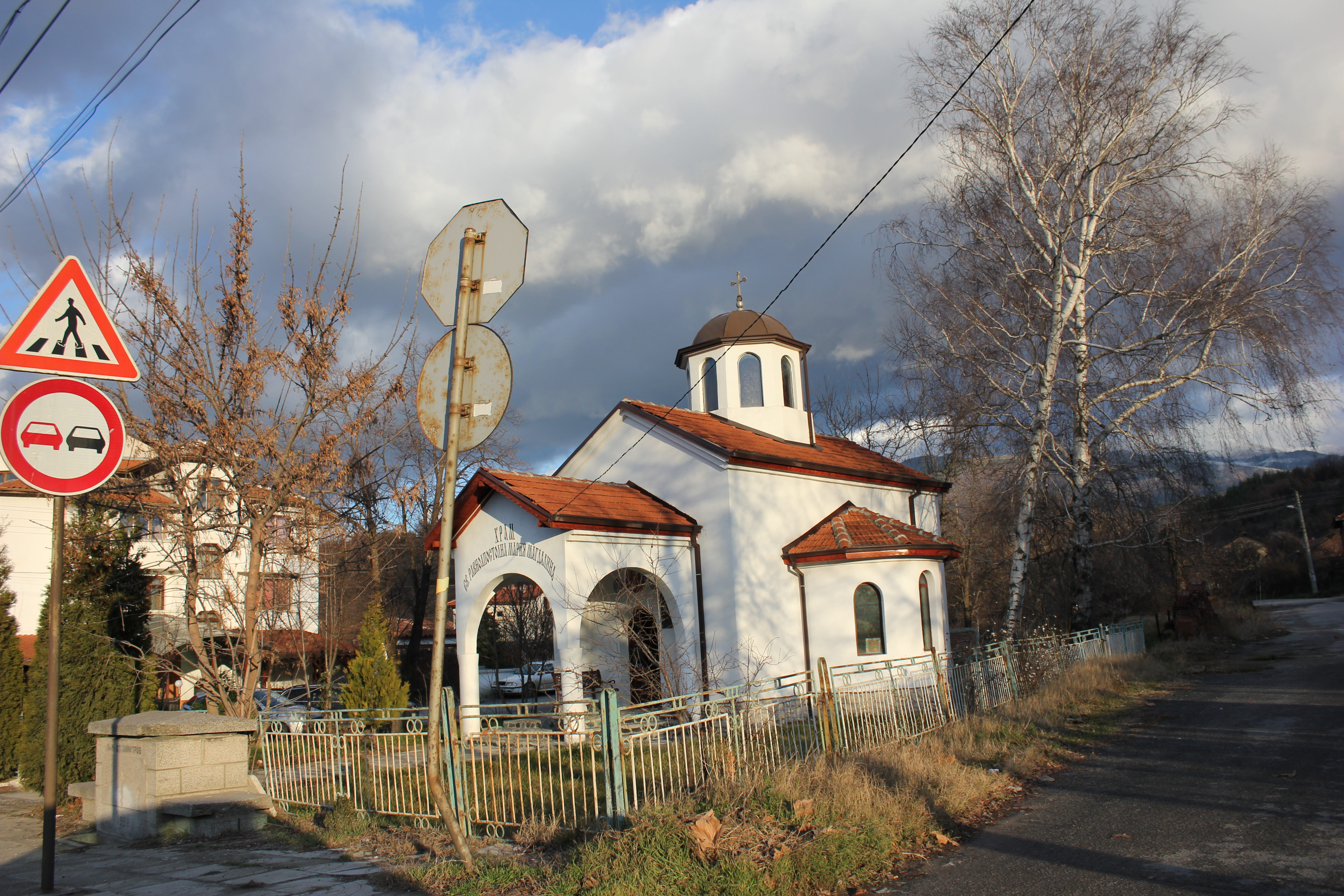 The Saint Magdalena Church in Usoyka